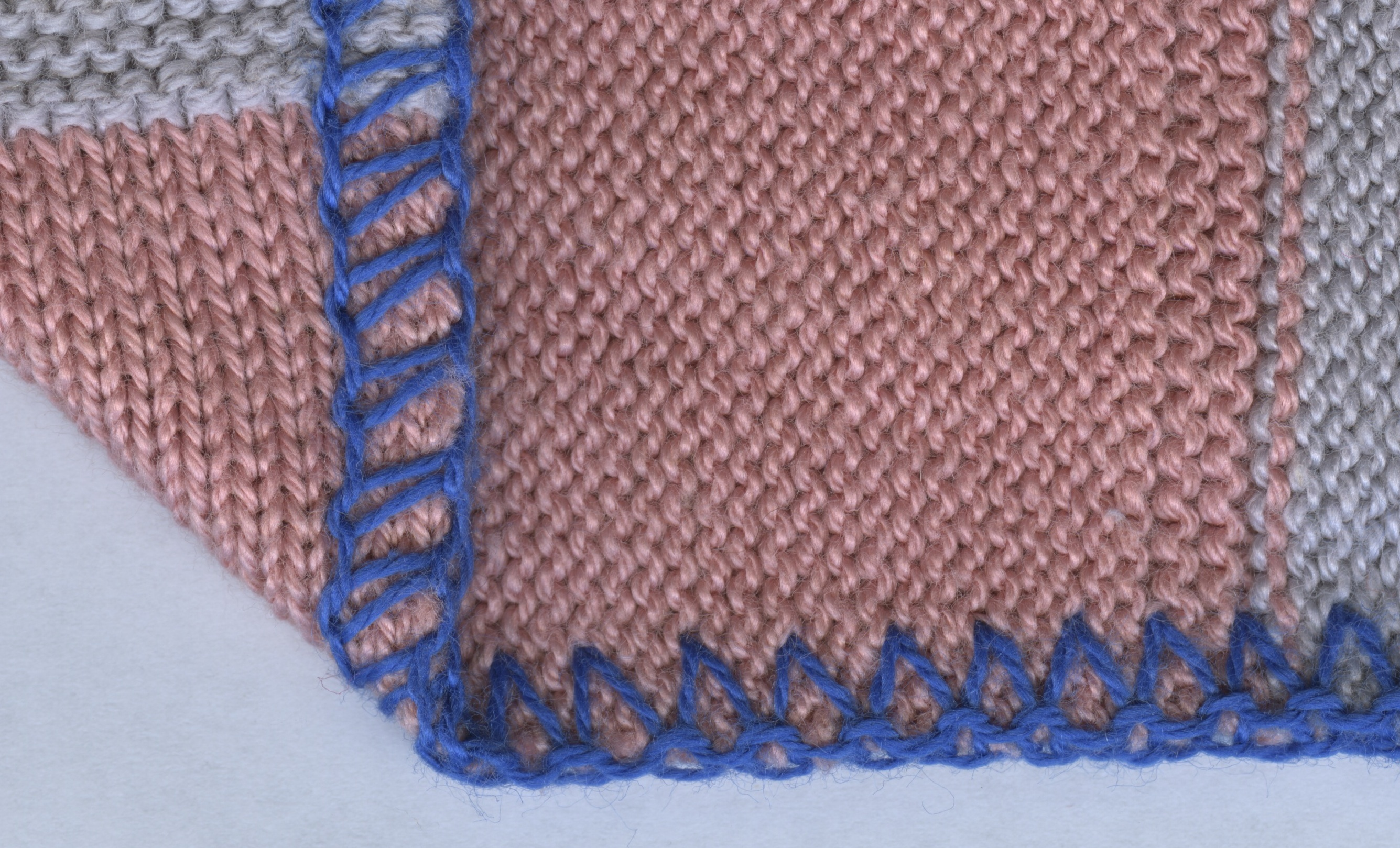 Overlock 3-thread